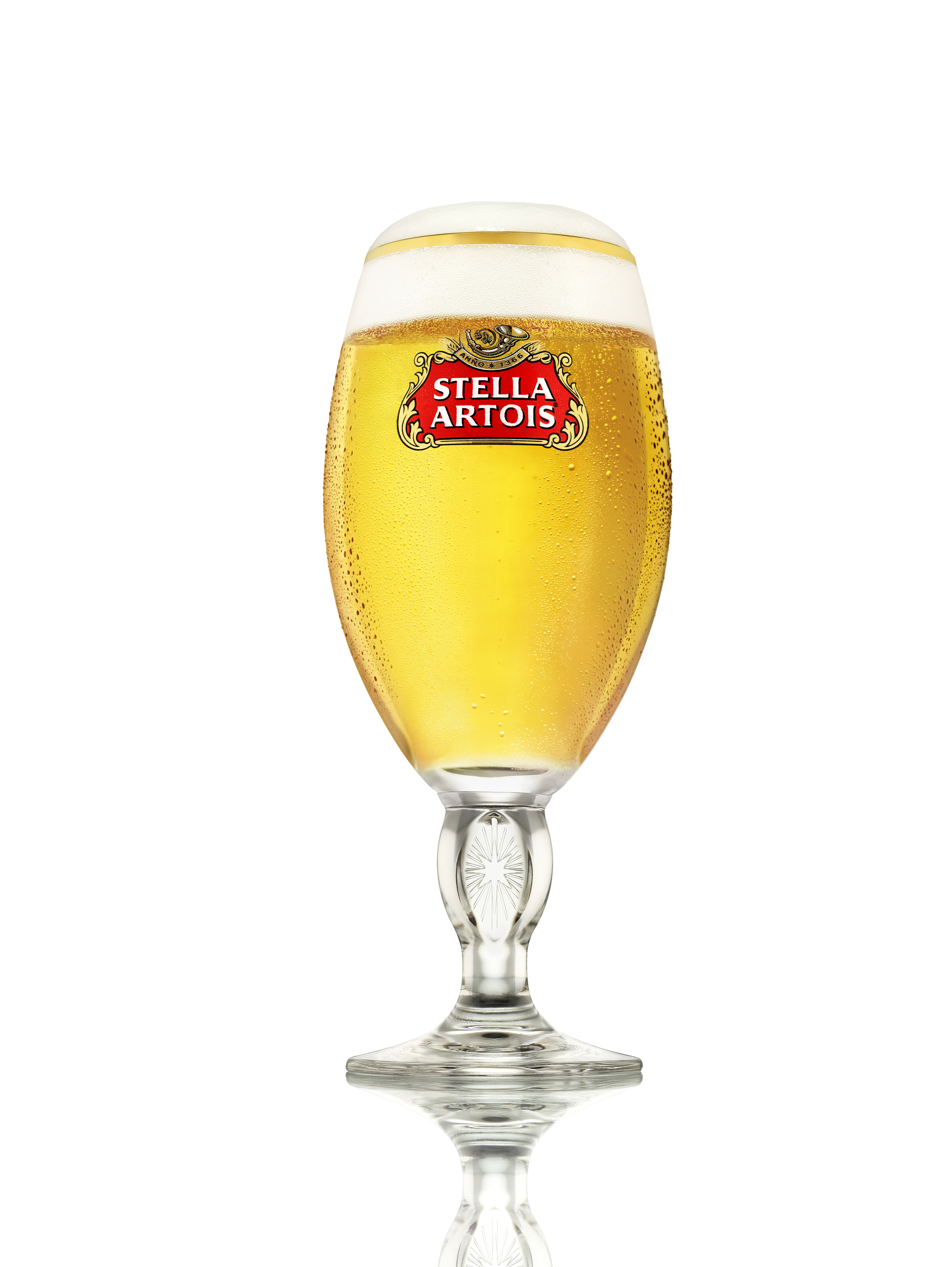 Stella Artois chalice as served in pubs and restaurants